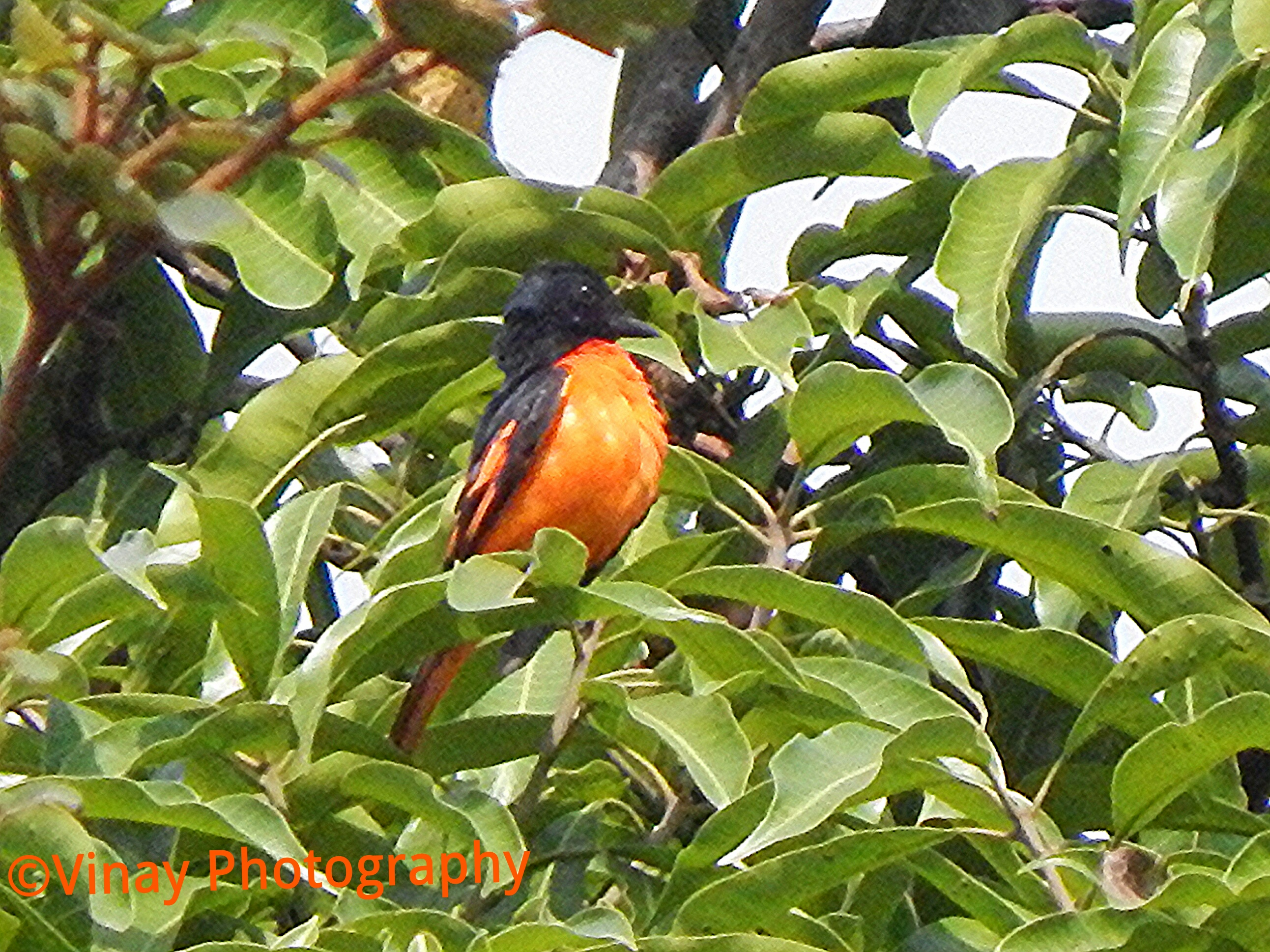 Portrait of scarlet minivet